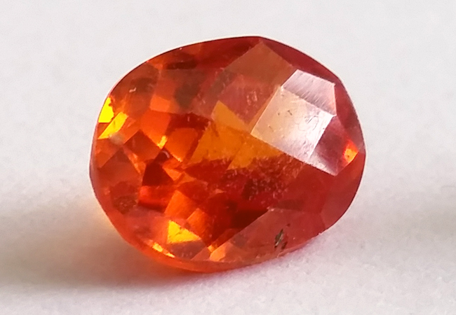 Zincite from Poland, 5.26ct